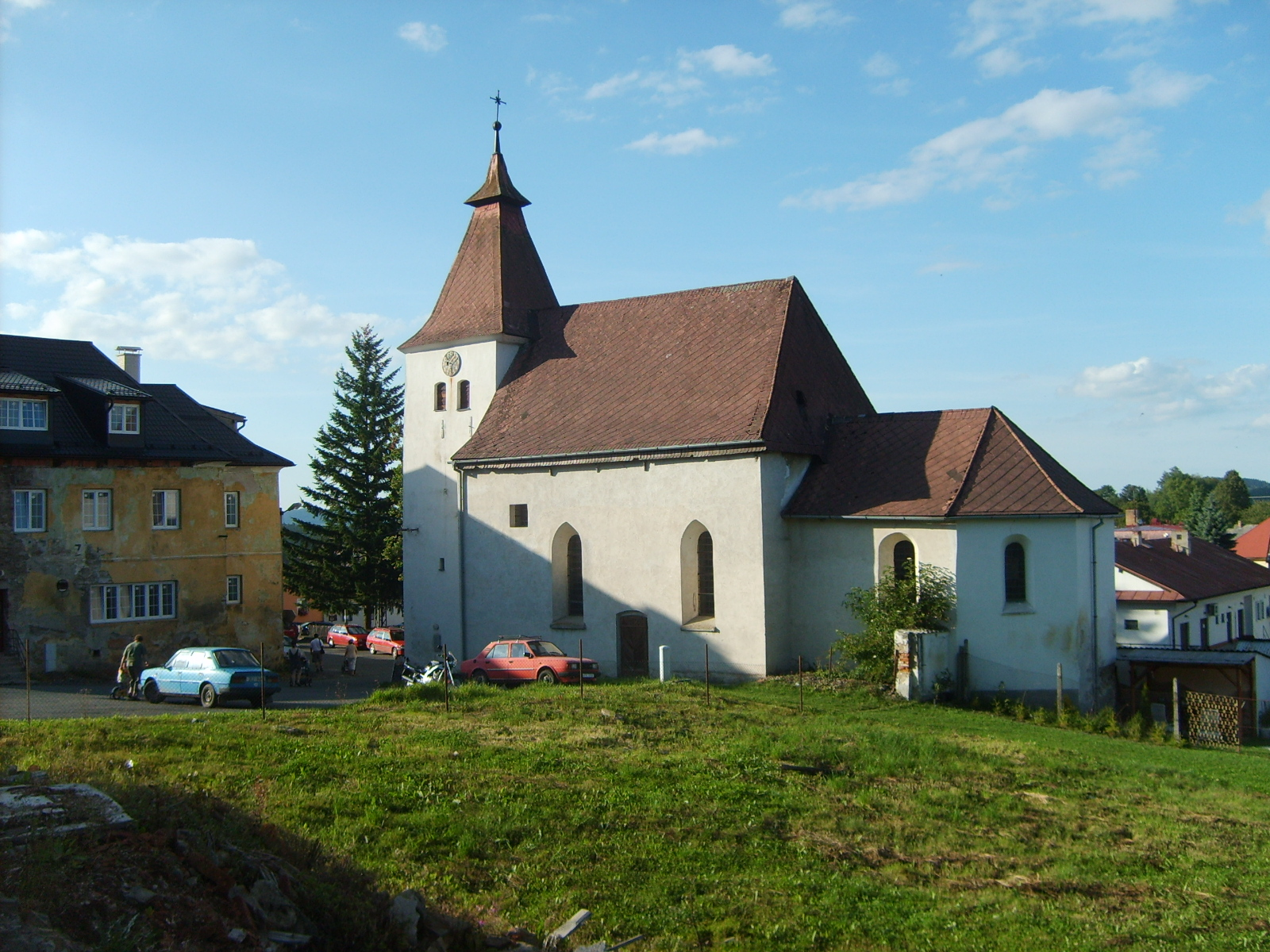 Church in Hartmanice, Bohemian Forest, Klatovy District, Czech republic.